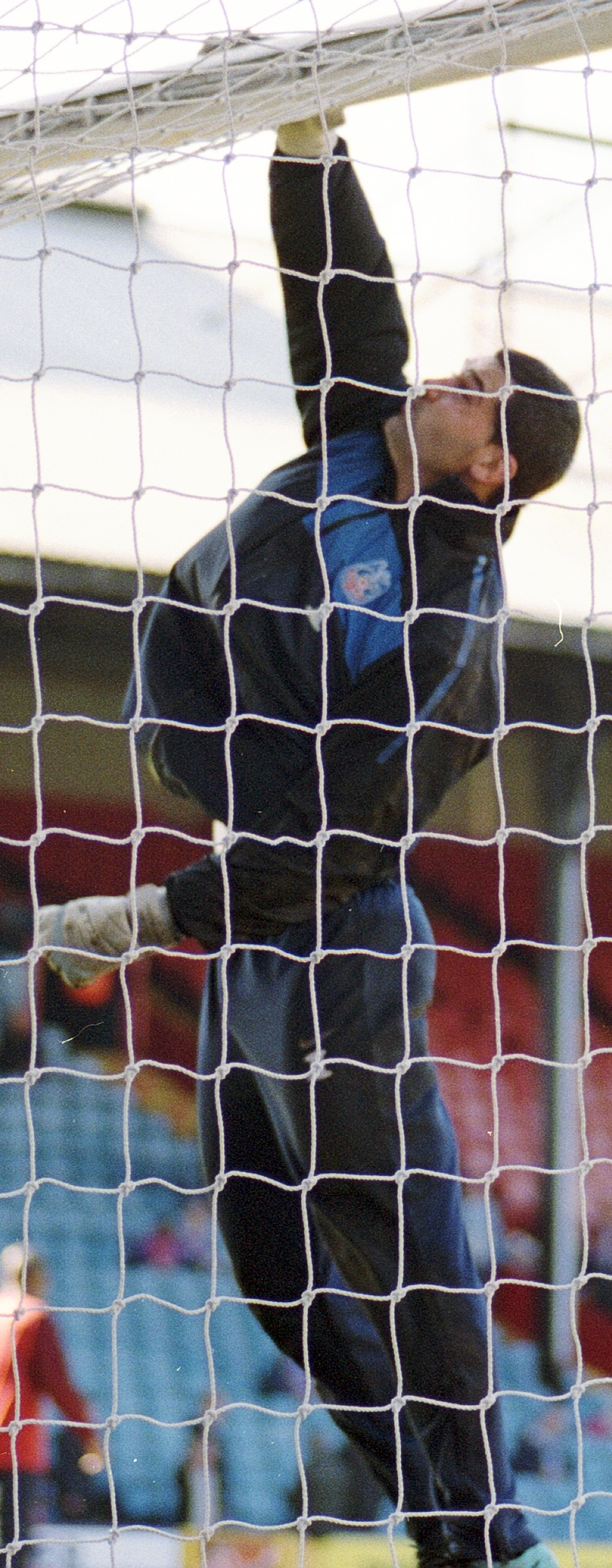 Julián Speroni. Image cropped from original at flickr.